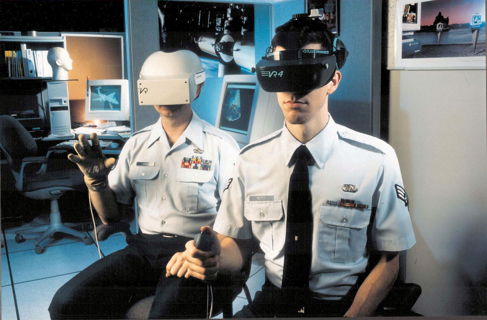 Third Place Illustrative'VR4' by Master Sgt. Fernando Serna, U.S. Air Force.Tech. Sgt. William Lexa (left) and Senior Airman Raymond Pettit conduct virtual reality research at Brooks Air Force Base, Texas, on pilot/cockpit systems to help make their training more realistic. (Released)